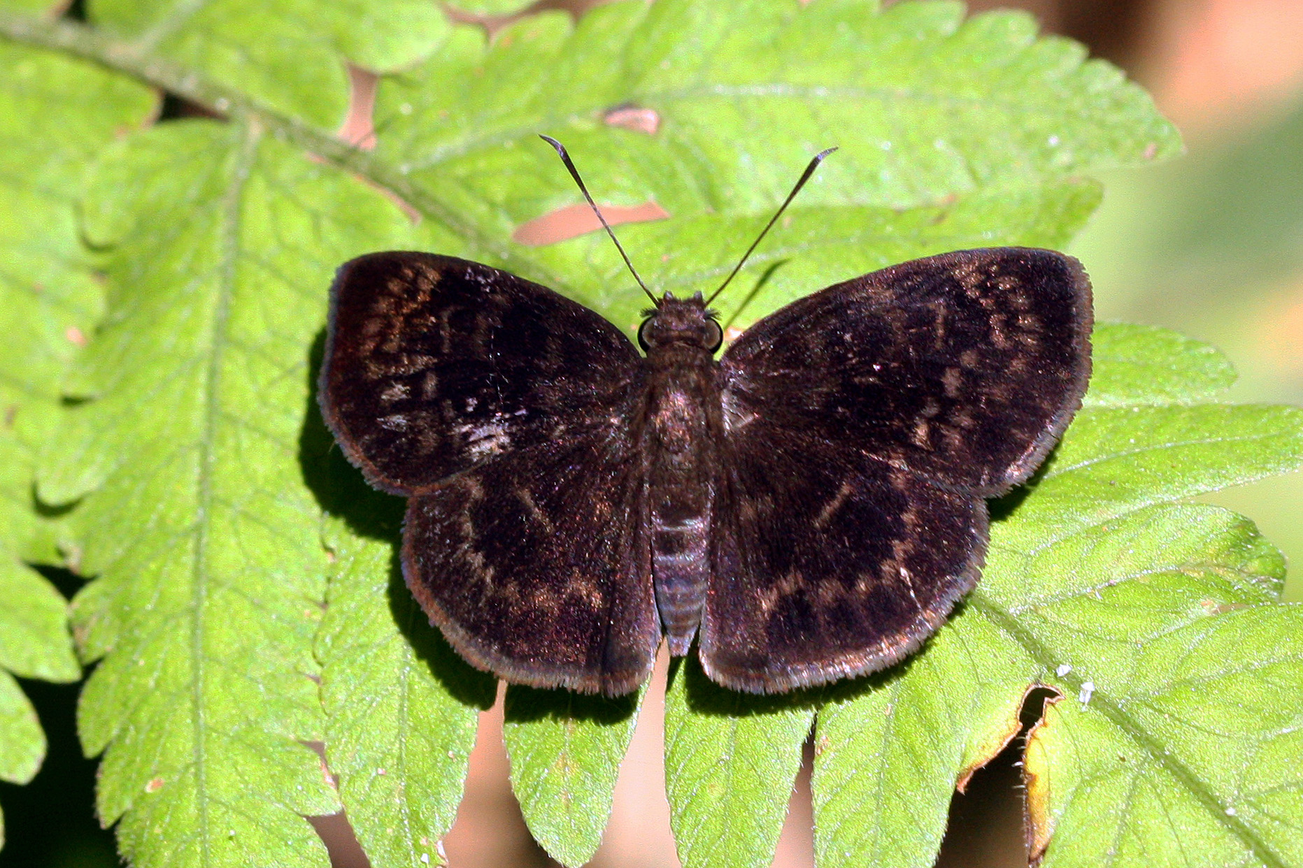 Fridericus spreadwing butterfly (Ouleus fridericus), Trinidad